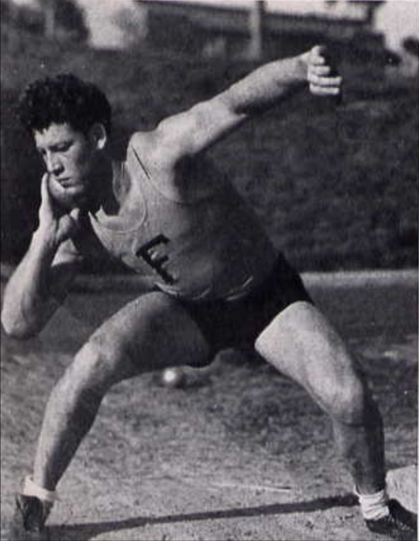 Photograph of University of Florida athlete Forrest Ferguson (Forrest spelled with two r's in the photo caption), namesake of the Fergie Ferguson Award